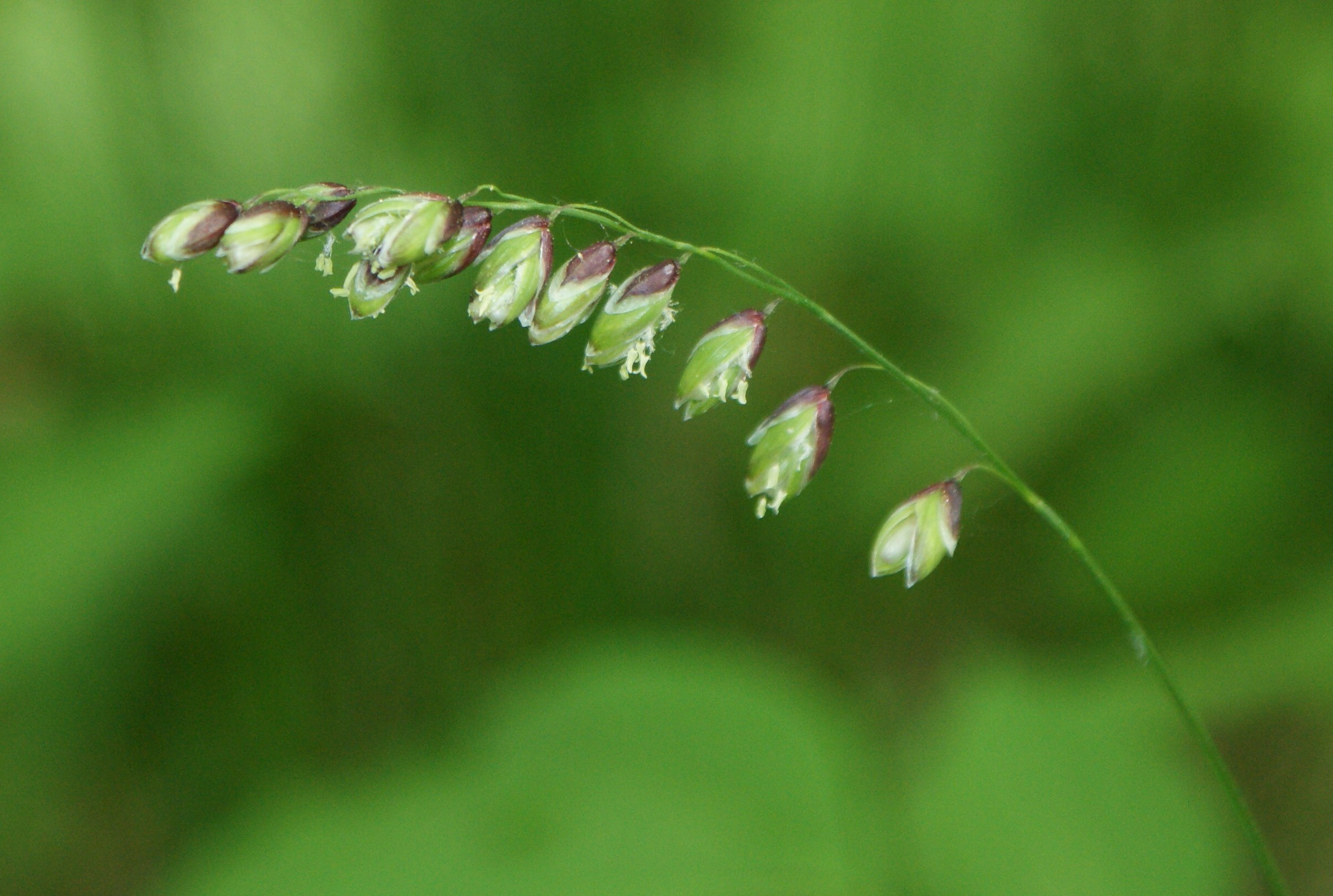 Melica nutans, inflorescence